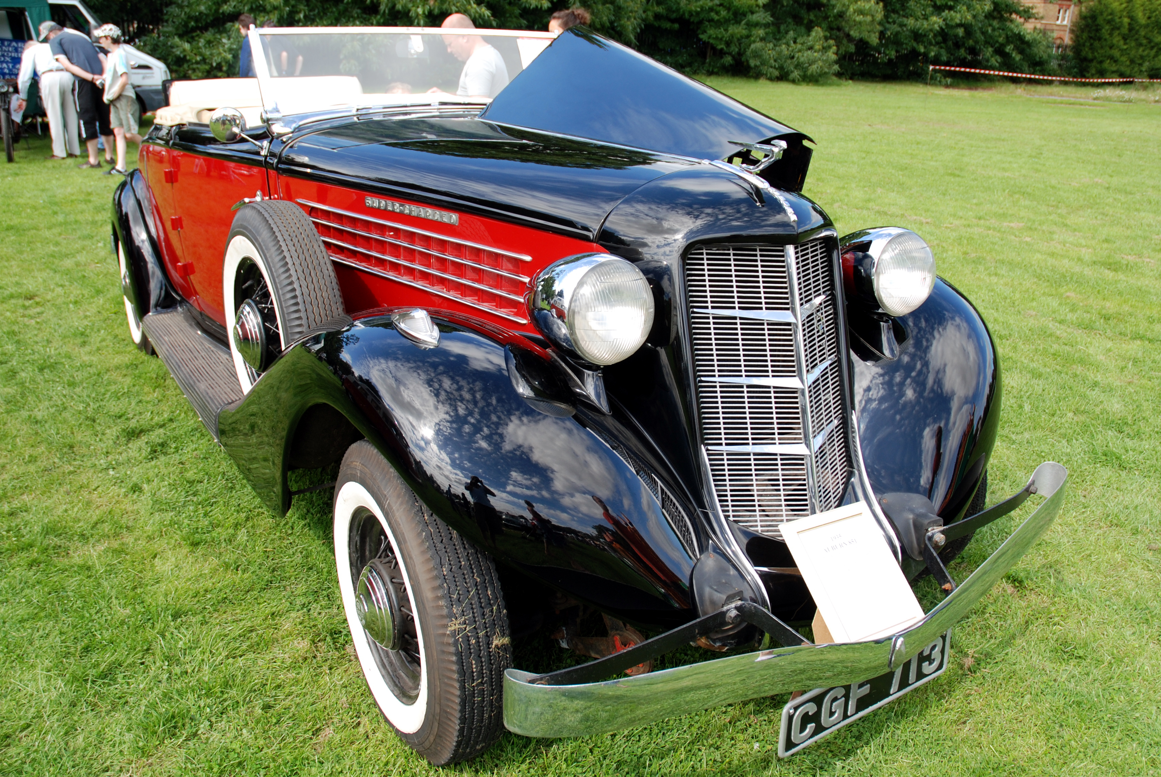 @ Woking Summer Festival Aug 2007